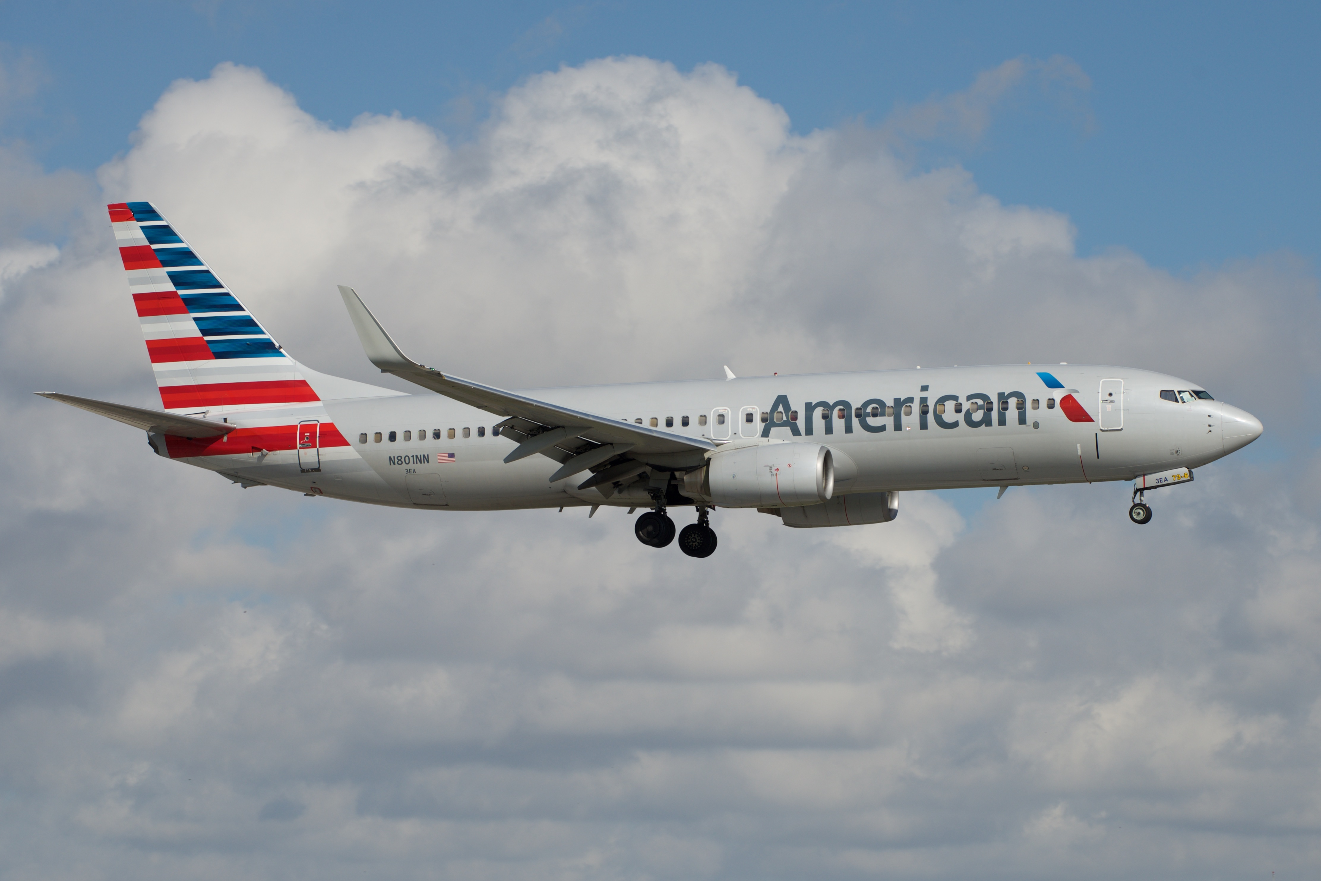 New colours. Short Final MIA